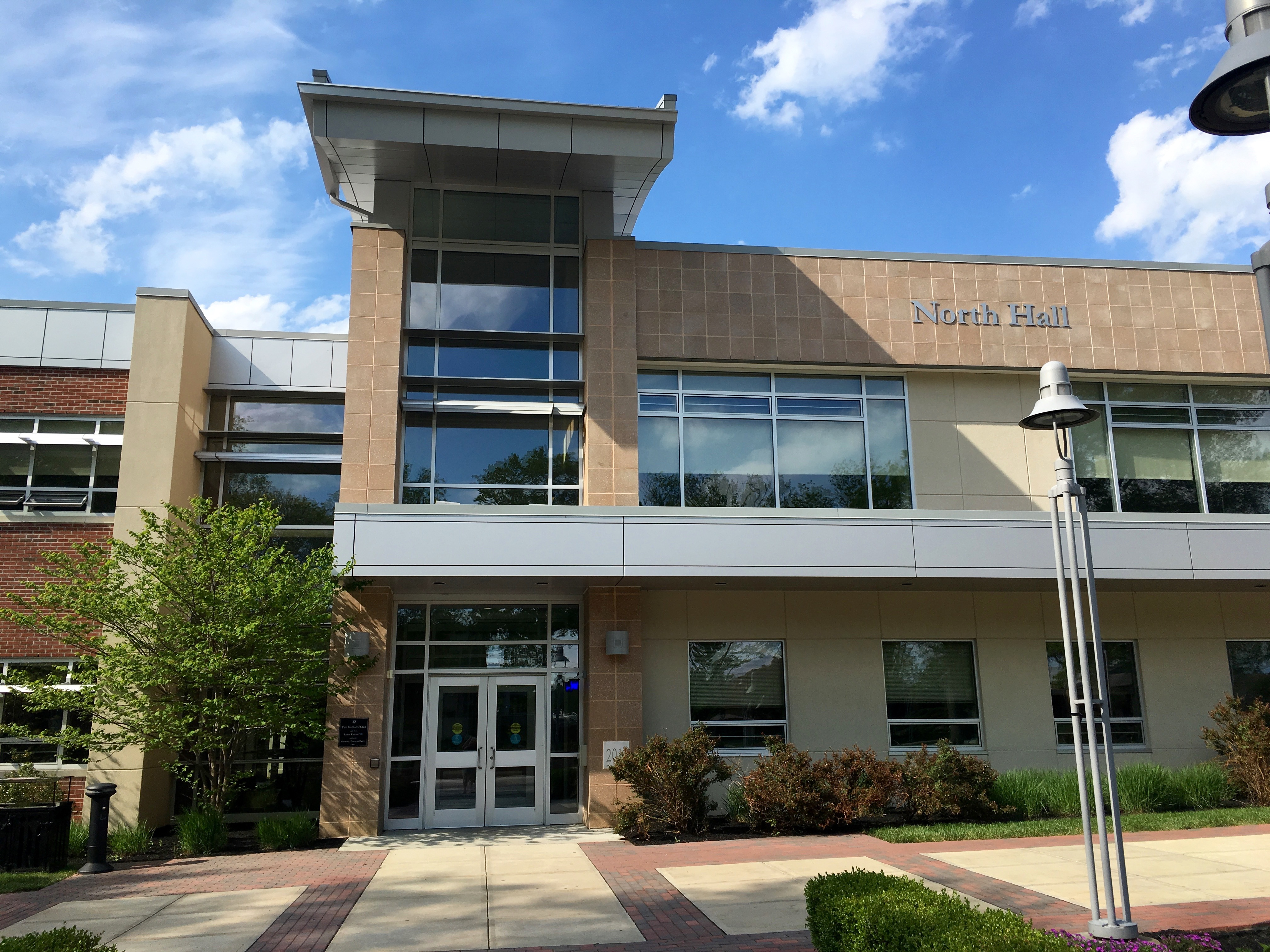 North Hall at Rider University